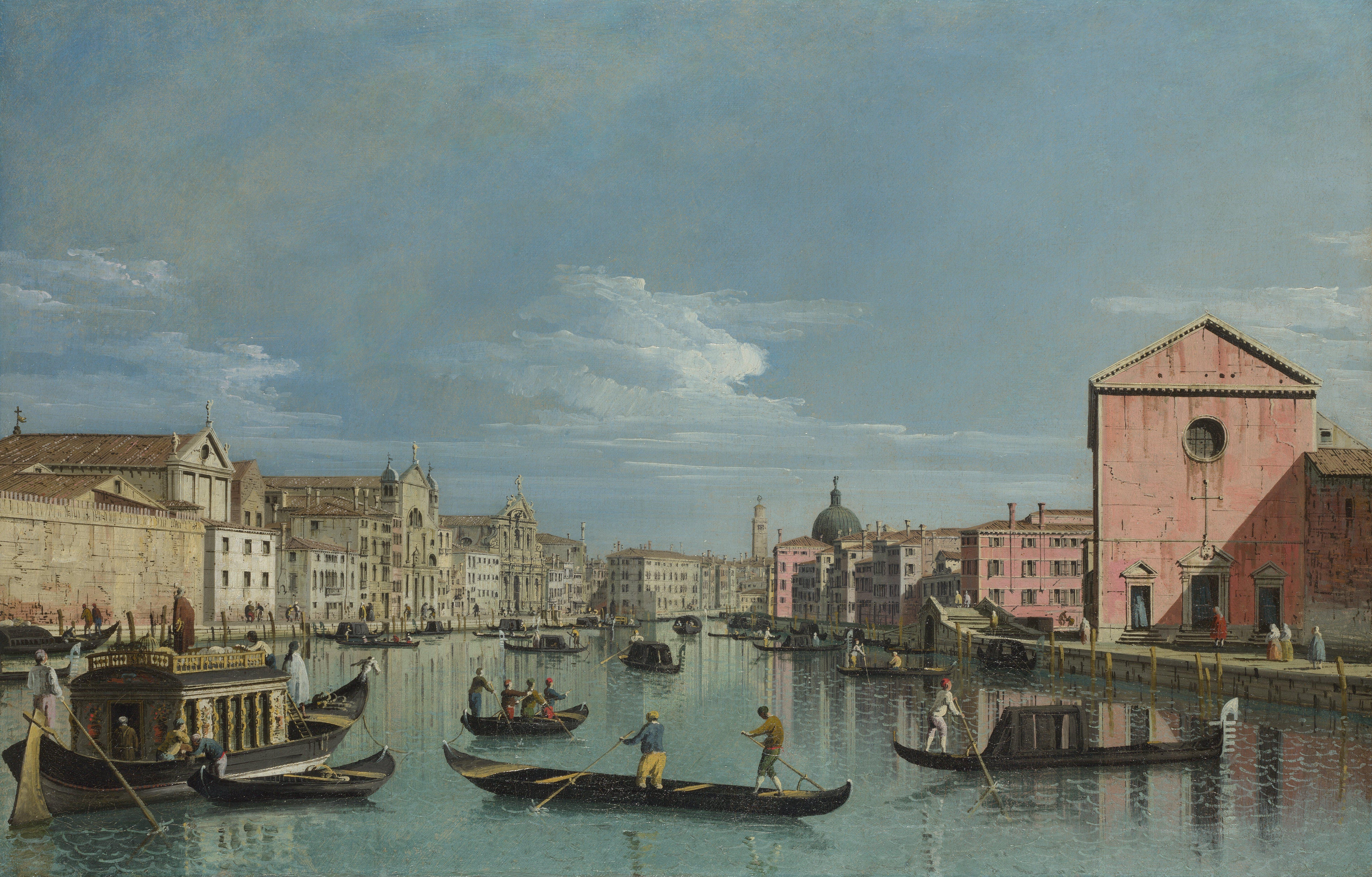 perhaps 1740s, London, .